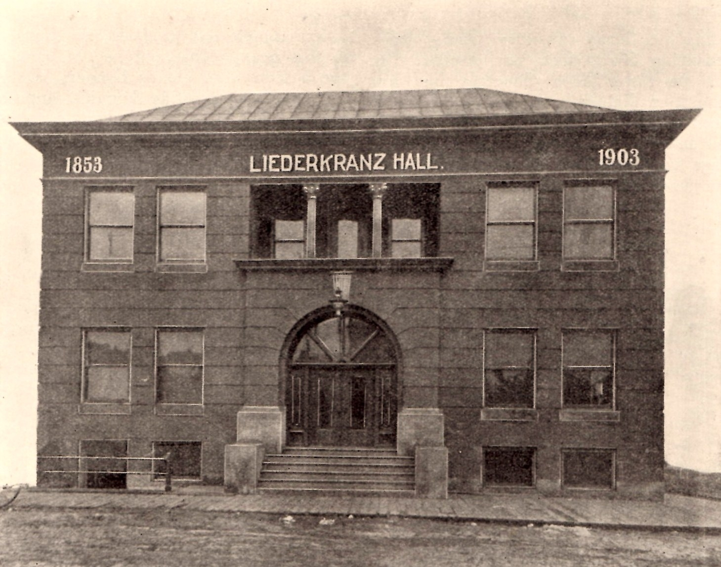 Period photo of the Liederkranz Hall in Blue Island, Il, designed by George Washington Maher in 1896